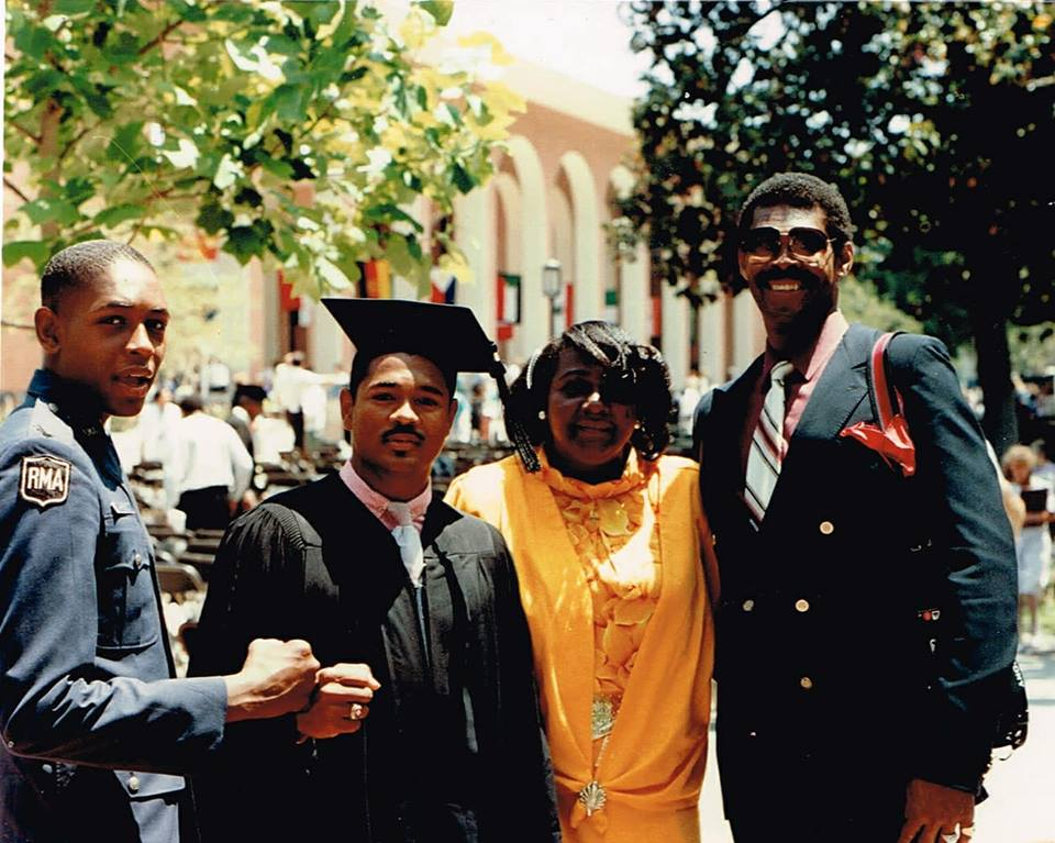 Luis Morales (athlete) graduating from USC